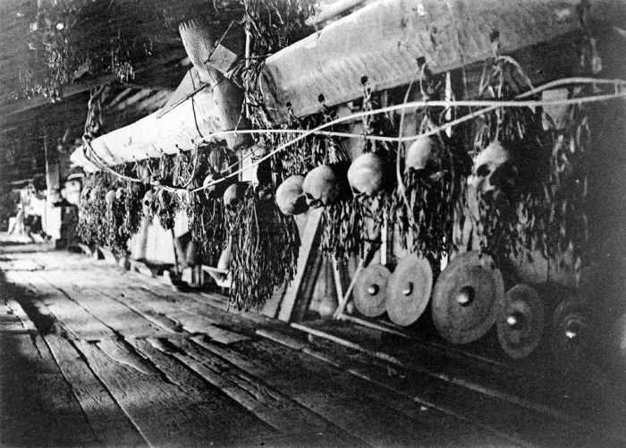 The gallery in the interior of a Kajan Dayak house with skulls and weapons along the wall.